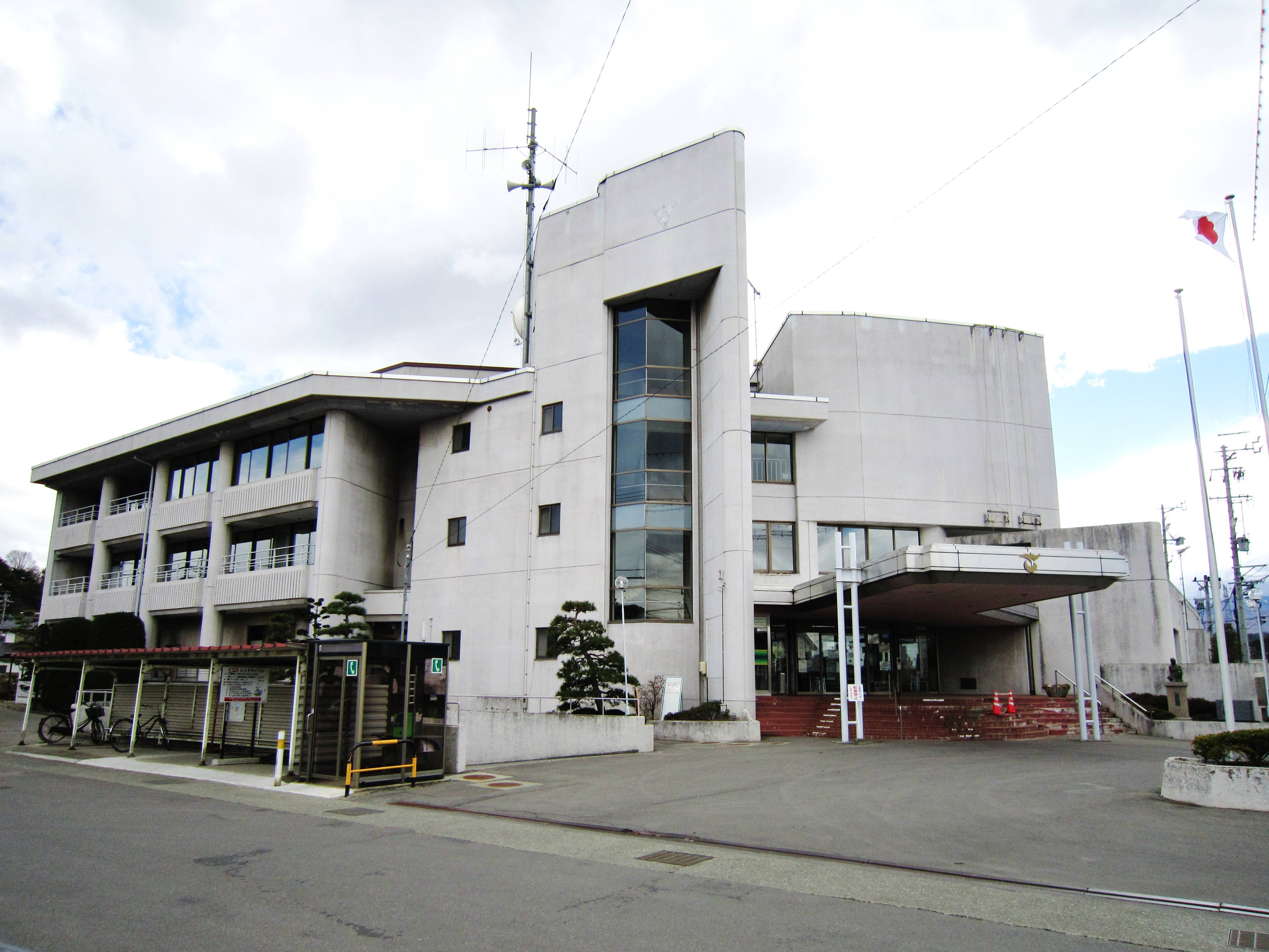 Saku city Usuda branch office.